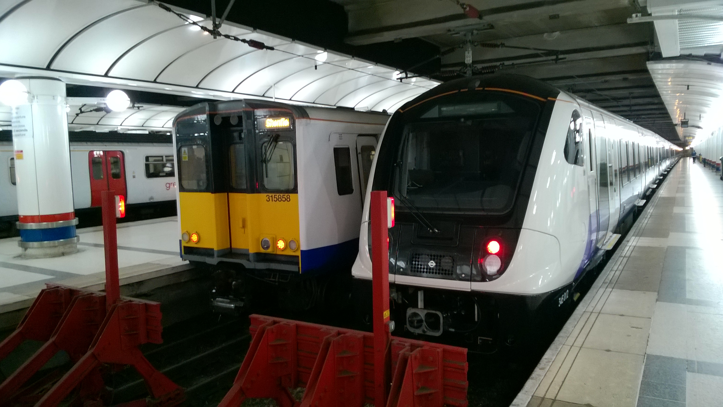 TfL Rail Class 315 and 345 at London Liverpool Street station